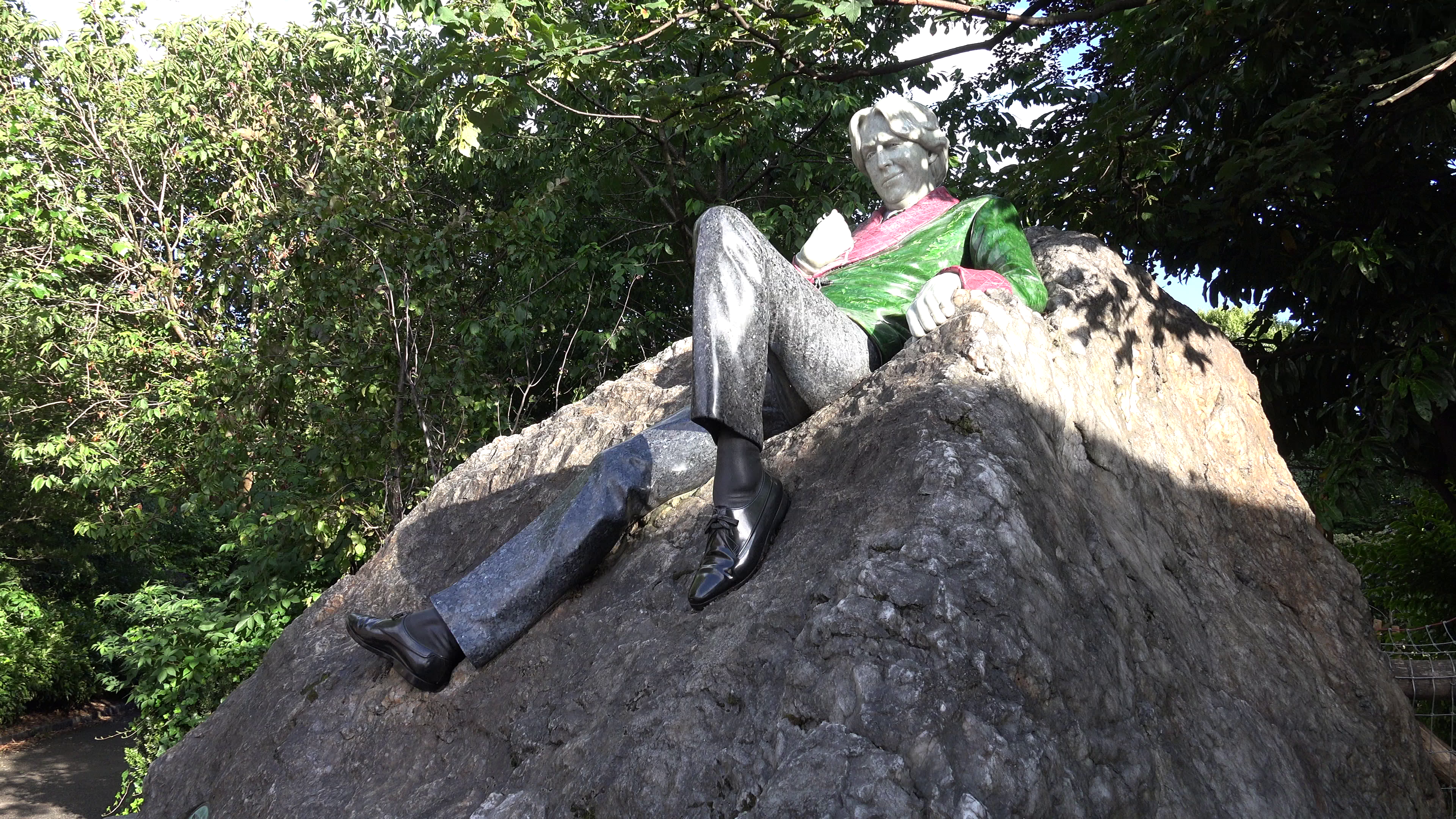 Oscar Wilde statue in Merrion Square in Dublin